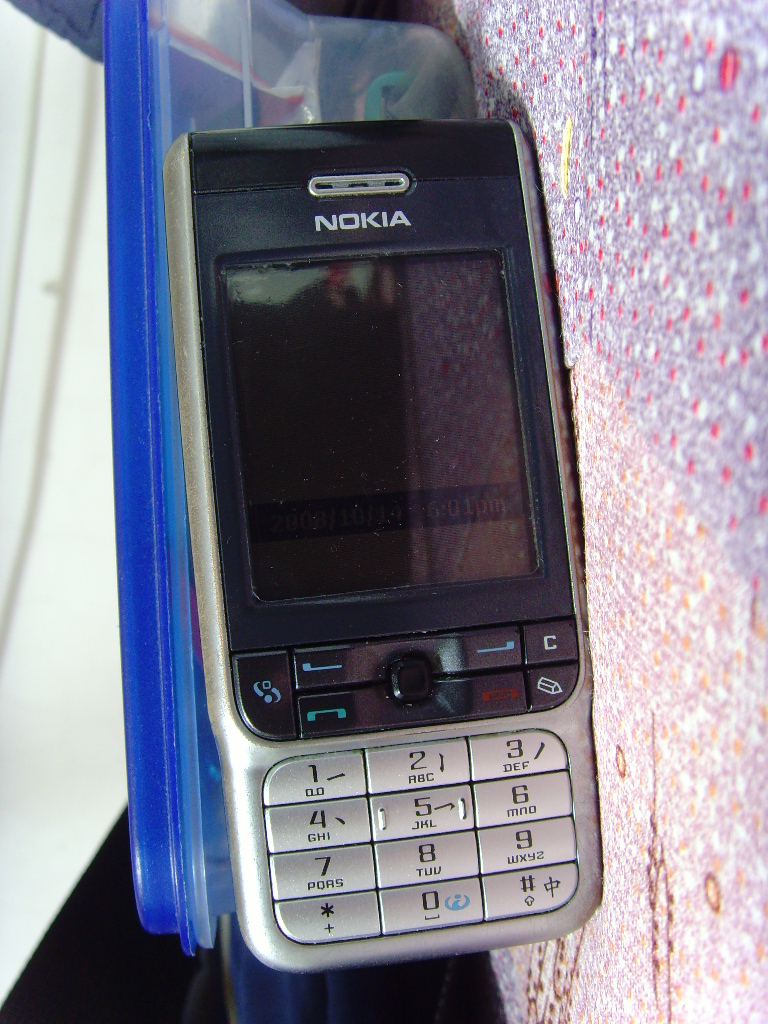 Nokia 3230 Mobilephone